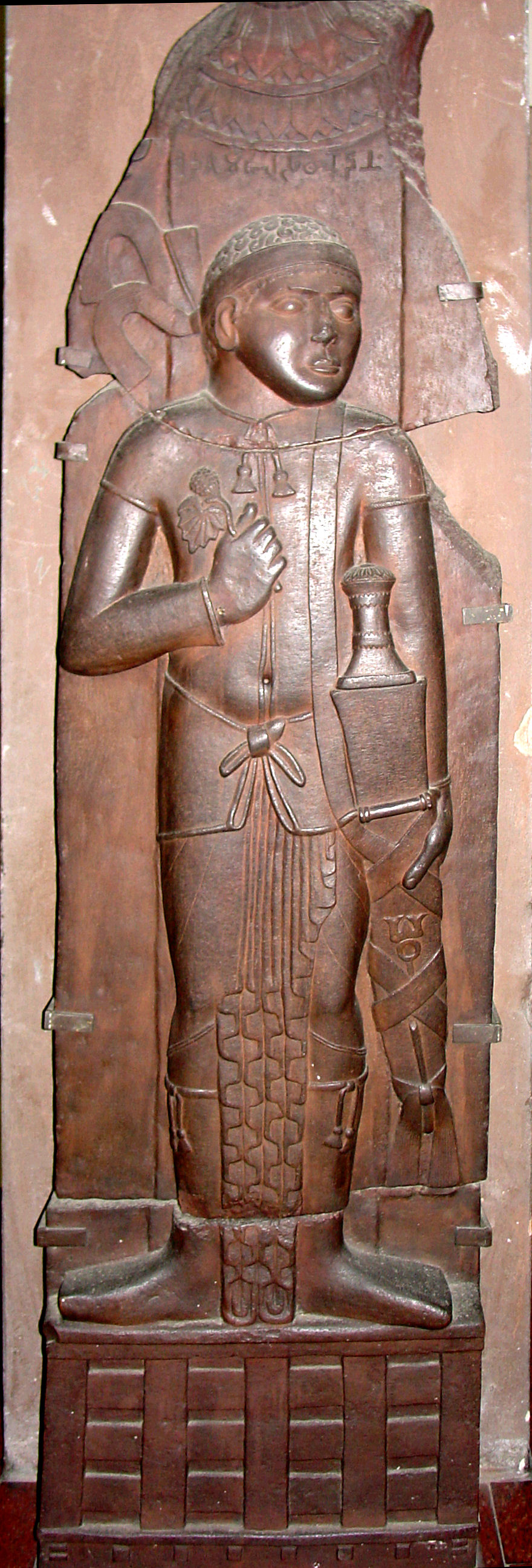 Greek Warrior. Bharhut, c. 100 BC. Indian Museum, Calcutta The Greeks (speciafically Indo-Greeks) were evidently known at this date to people in the middle of India; here, a Greek warrior has been coopted into the role of dvarapala. The evidence includes his hairstyle, tunic, and boots. In his right hand he holds a grape plant, emblematic of his origin. The sheath of his broadsword is decorated with a nandipada. INSCRIPTION Inscription 55 in the Pillars of Railing of the SW Quadrant at Bharhut. The inscription at the top, classified as Inscription 55 in the Pillars of Railing of the SW Quadrant at Bharhut (The Stupa of Bharhut, Cunningham, p.136 [1]), is in the Brahmi script and reads from left to right: "Bhadanta Mahilasa thabho dânam" "Pillar-gift of the lay brother Mahila."